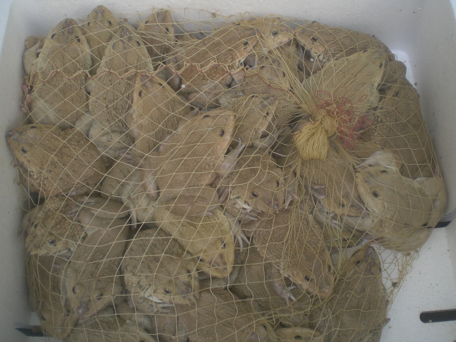 西環 魚網袋 酒家食料田雞